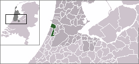 Locator map of municipality Bloemendaal, including Bennebroek which merged on January 1, 2009.